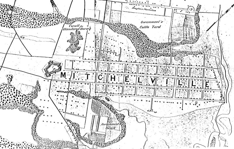 Excerpt of 1869 U.S. Government map showing Mitchelville, part of the Port Royal Experiment.